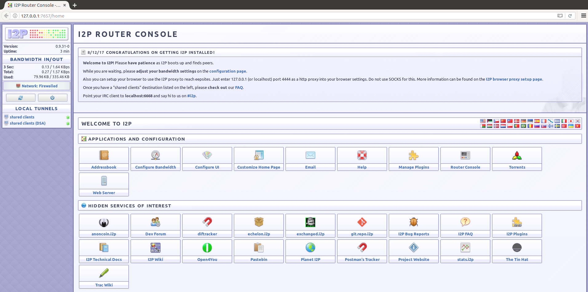 I2P router console for I2P version 0.9.31-0. Accessed via Firefox from Linux.